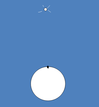 a diagram showing a geosynchronous satellite suspended above a marked spot on the Earth